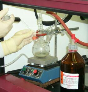 A Barbier reaction using samarium(II) iodide. Note the SmI2 colour in the syringe, the colour is discharged as it reacts in the flask to form yellow coloured Sm(III). Picture taken by User:Walkerma, November 2004.